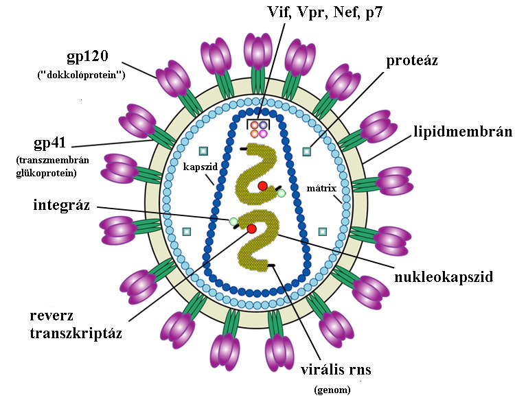 Human Immunodeficiency Virus (HIV) Diagram